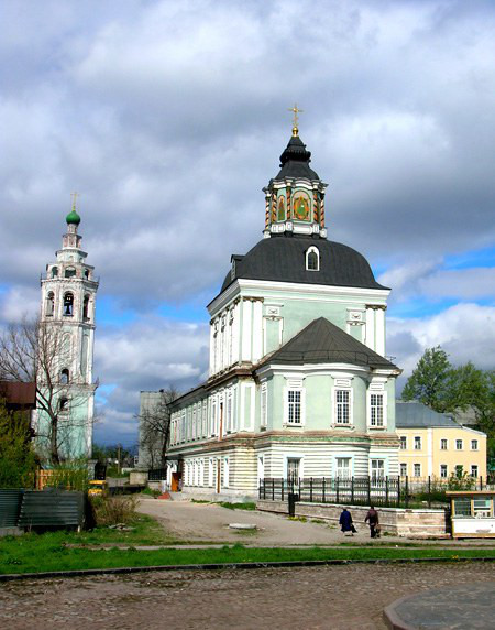 Church of Christ's Nativity in Tula (1730-34)